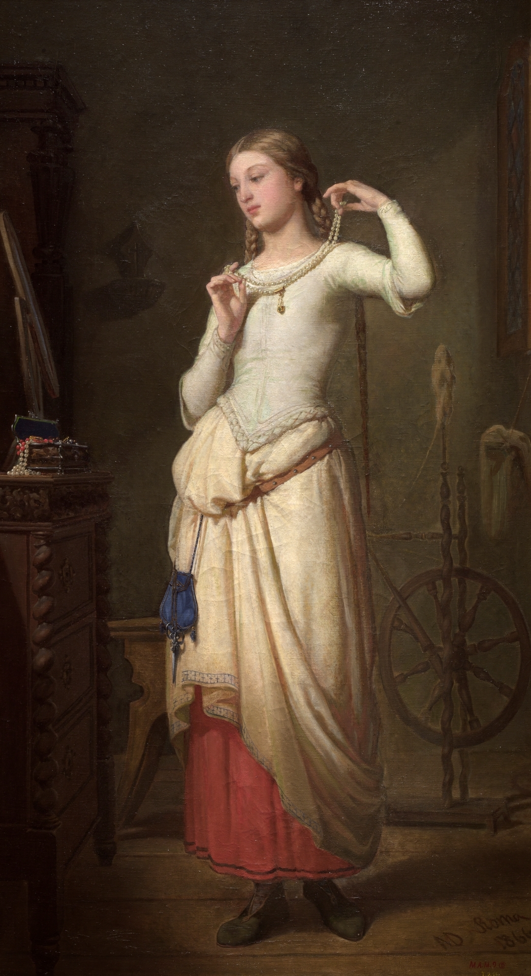 Daisy in front of the mirror